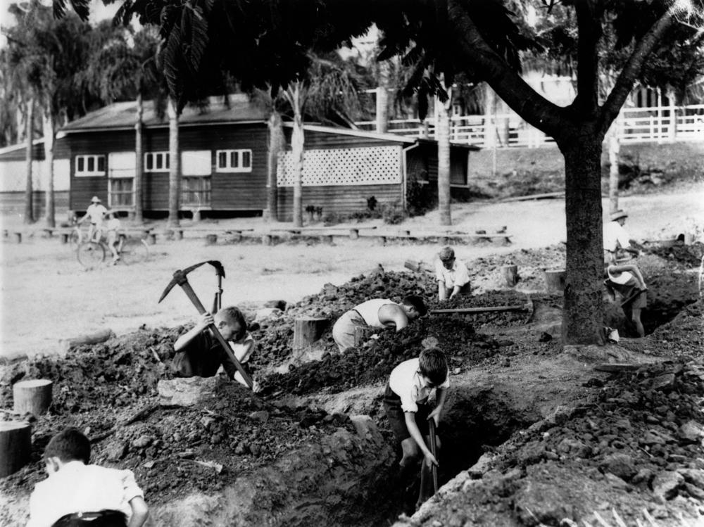 Children digging air raid trenches at Ascot State School, Brisbane, 1942